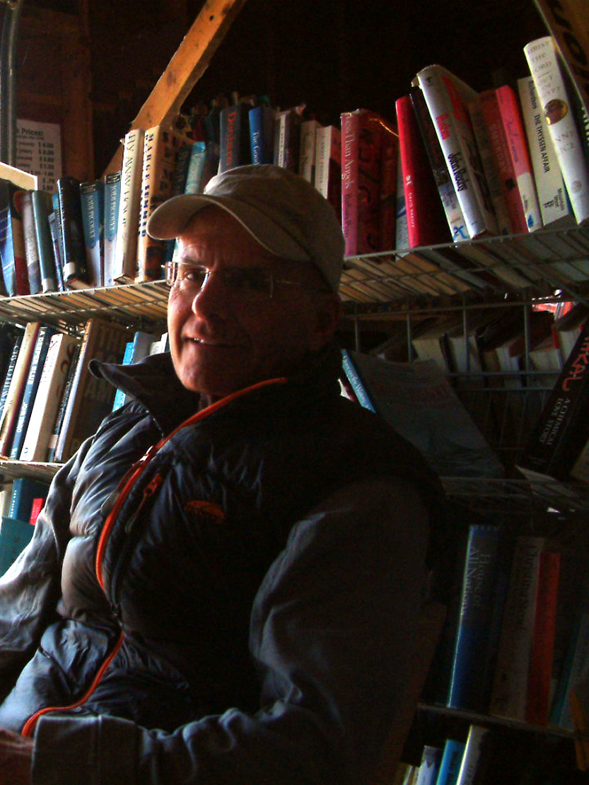 John Gray Museum administrator